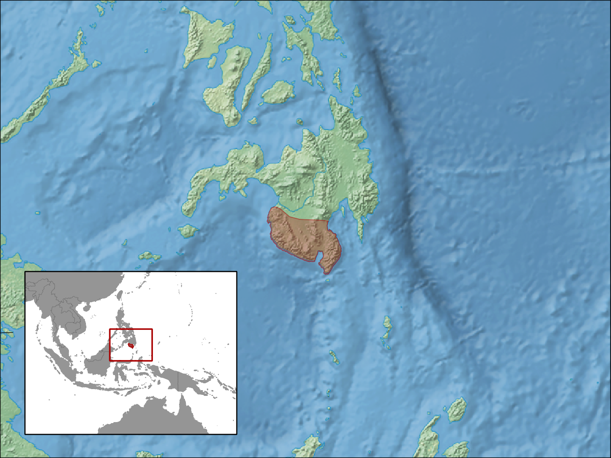 geographic distribution of Eutropis englei